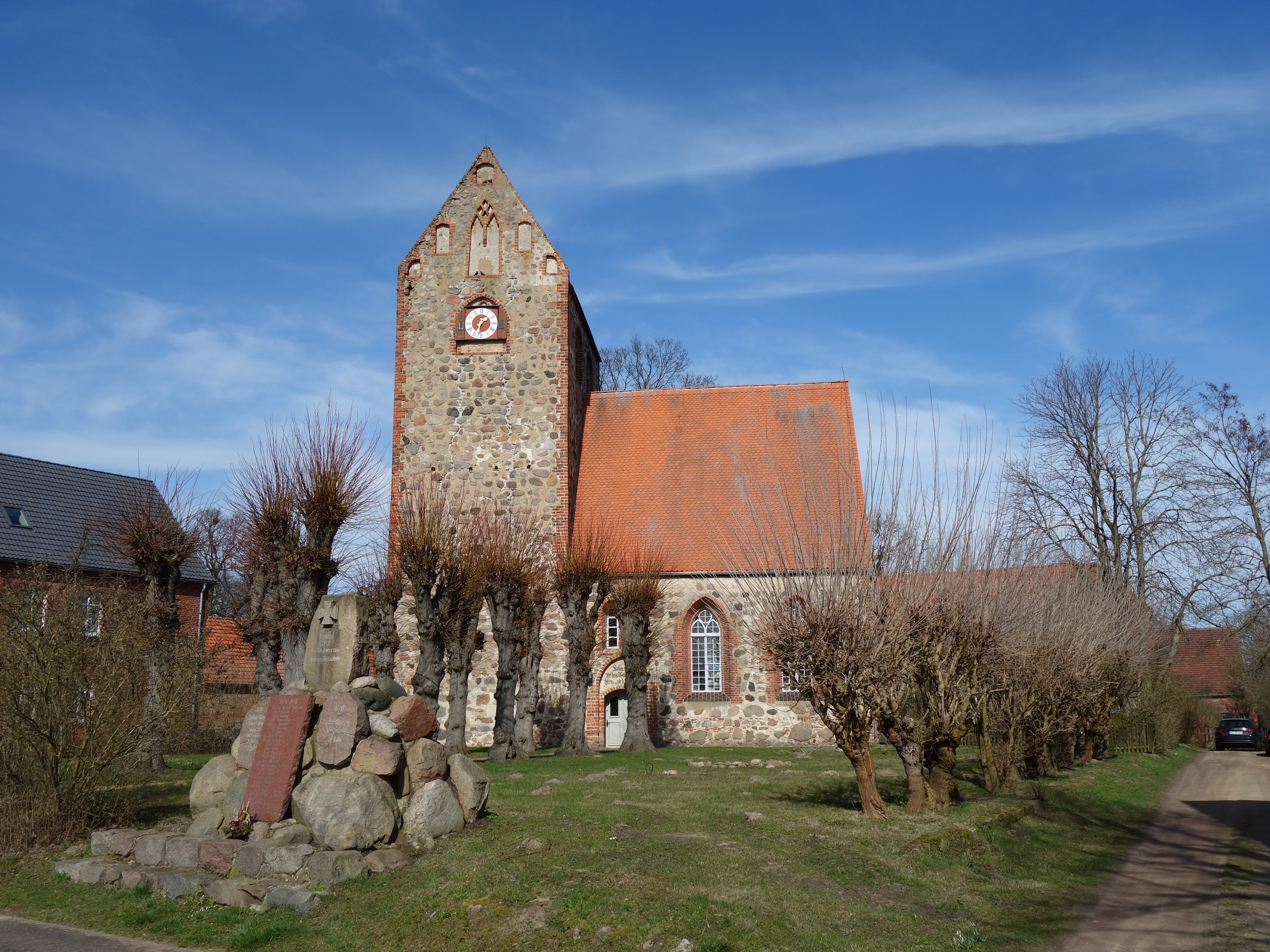 Southern view of church in Zernitz, Zernitz-Lohm municipality, Ostprignitz-Ruppin district, Brandenburg state, Germany